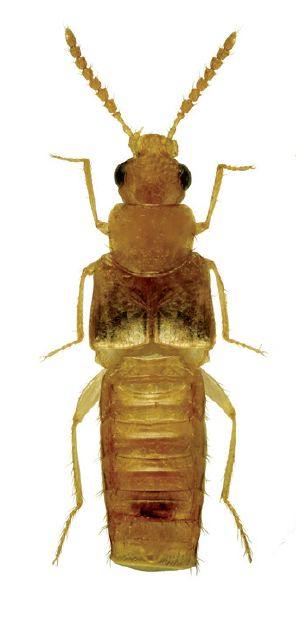 Dorsal view of Gyrophaena (G.) antennalis (apical part of abdomen removed).